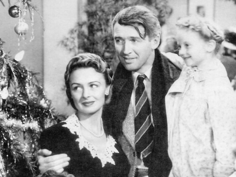 Iconic screen shot from the movie It's a Wonderful Life.